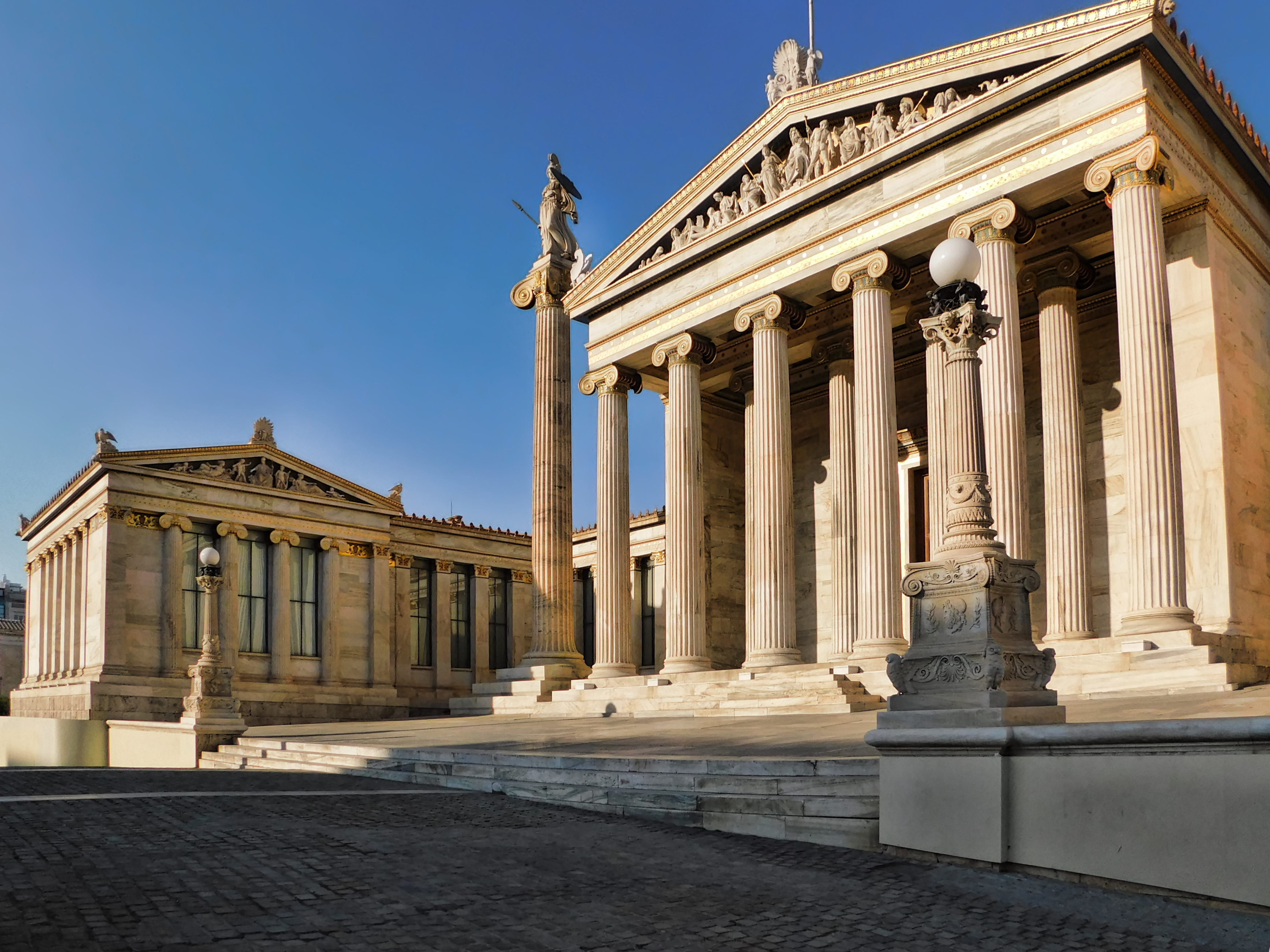 Academy of Athens, the ιonian-style entrance and its pediment«Μέγαρο Ακαδημίας Αθηνών»